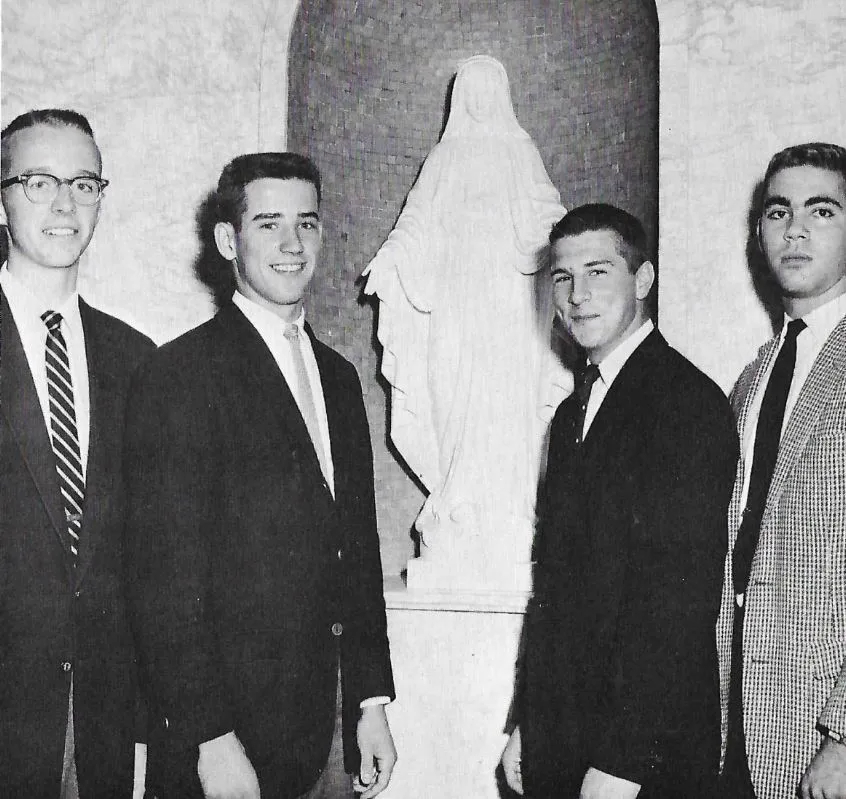 Joe Biden (second from left) while a student at Archmere Academy in Claymont, Delaware.